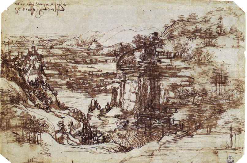 Study of a Tuscan Landscape (1473)